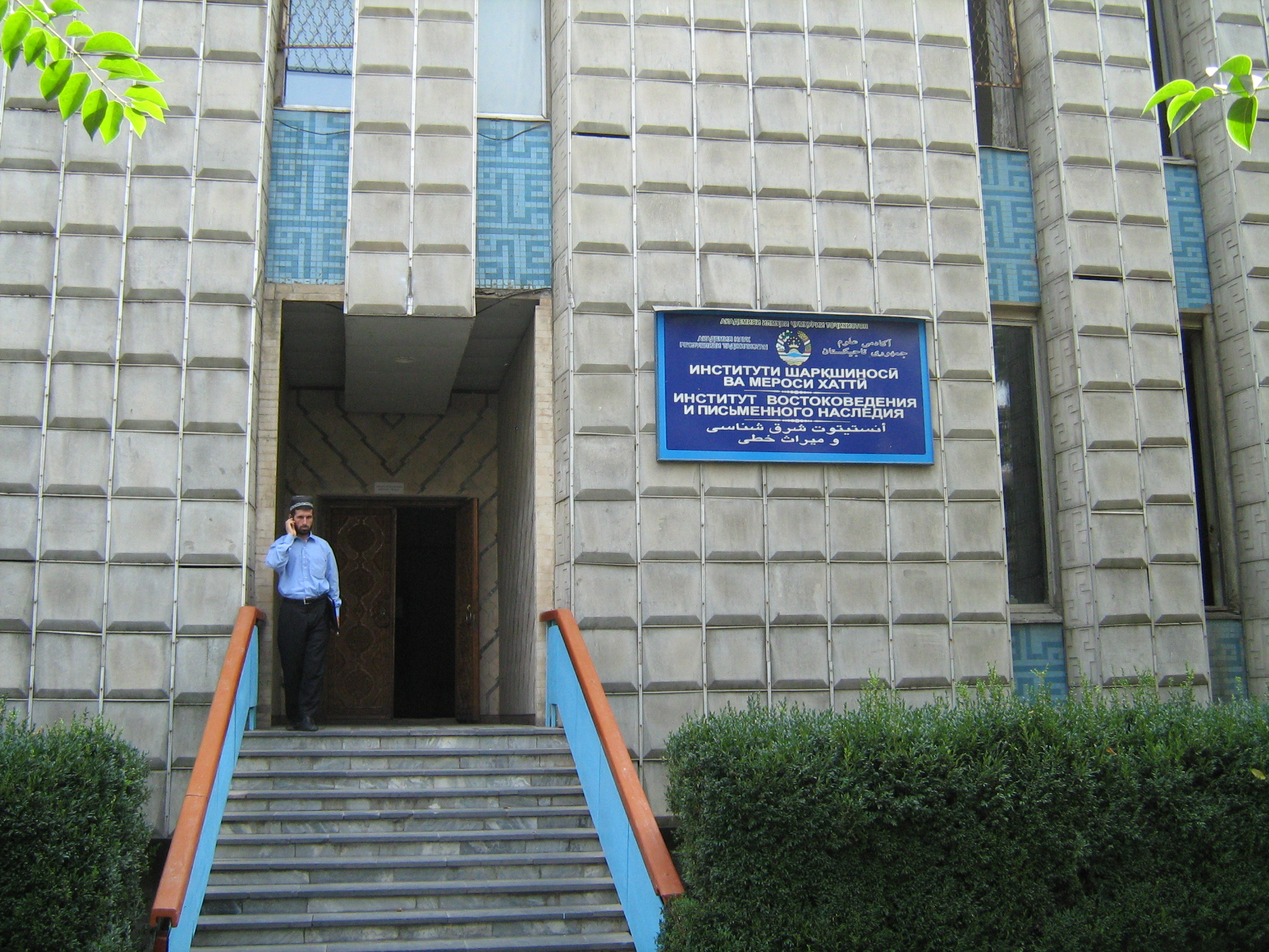 A. Rudaki Institute of Language and Literature, a branch of the Academy of Sciences of the Republic Tajikistan.- Loc.: 21, Rudaki Avenue, Dushanbe, Tajikistan